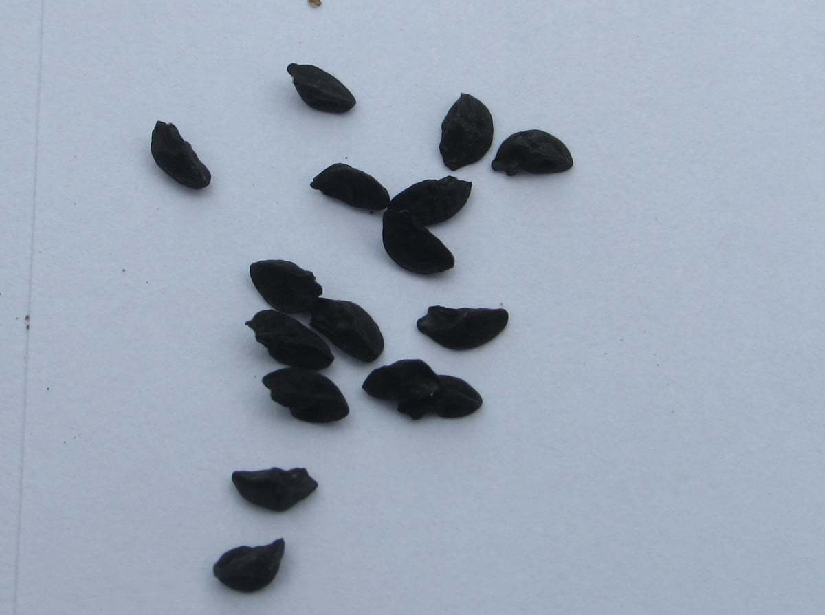 Allium sphaerocephalon seeds